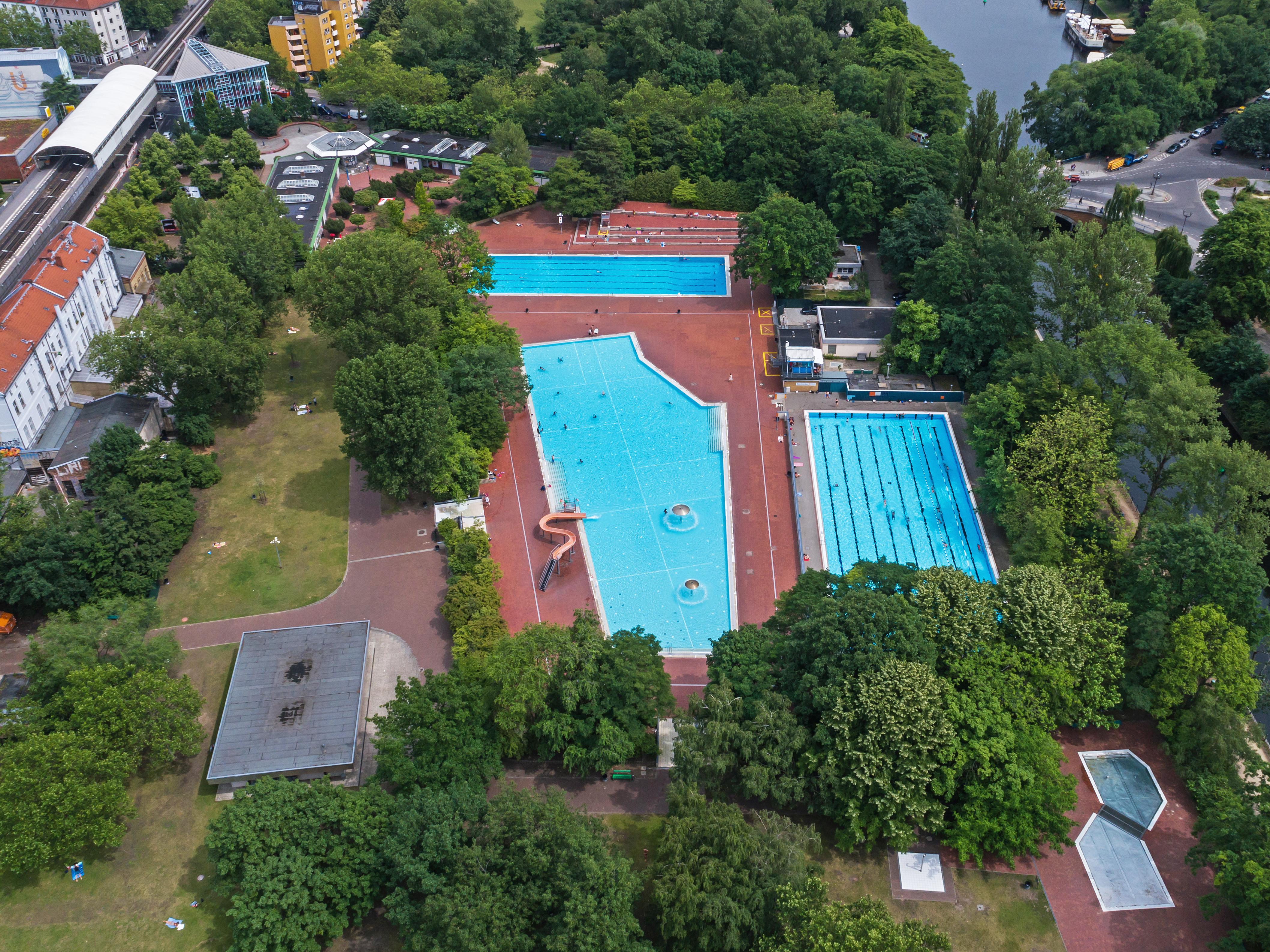 Aerial photo of Prinzenbad pool in Berlin (Germany)